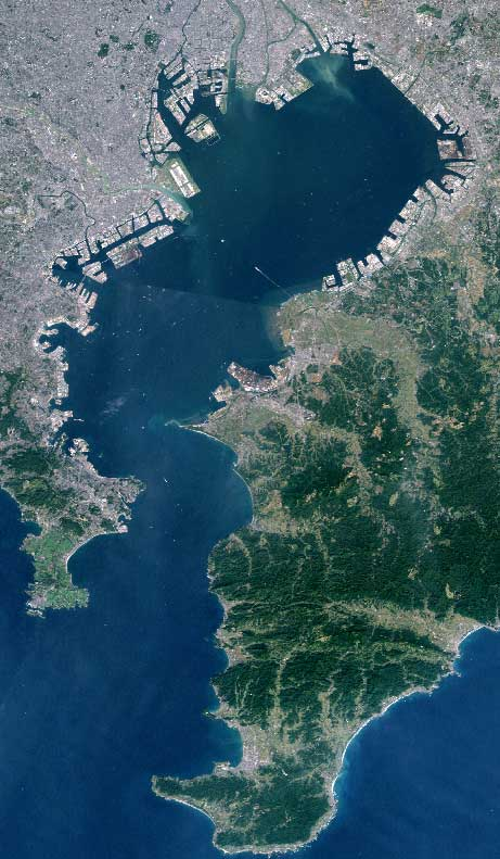 Tokyo Bay seen from space. Taken by Landsat.